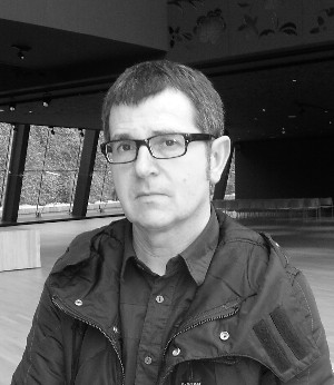 Xabier Sarasola